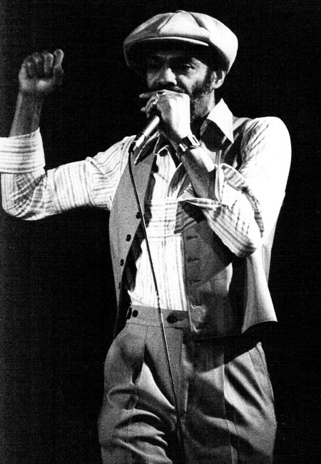 American blues harmonica player and singer Lester Davenport in Belgium